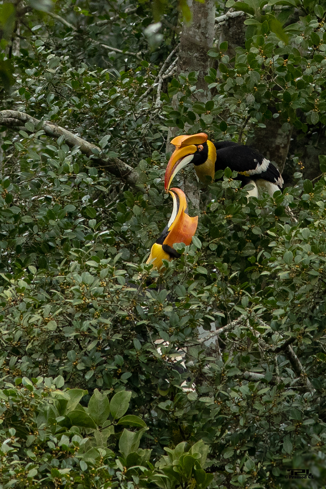 Great Hornbill_Nelliyampathy forest range. Feeding behavior